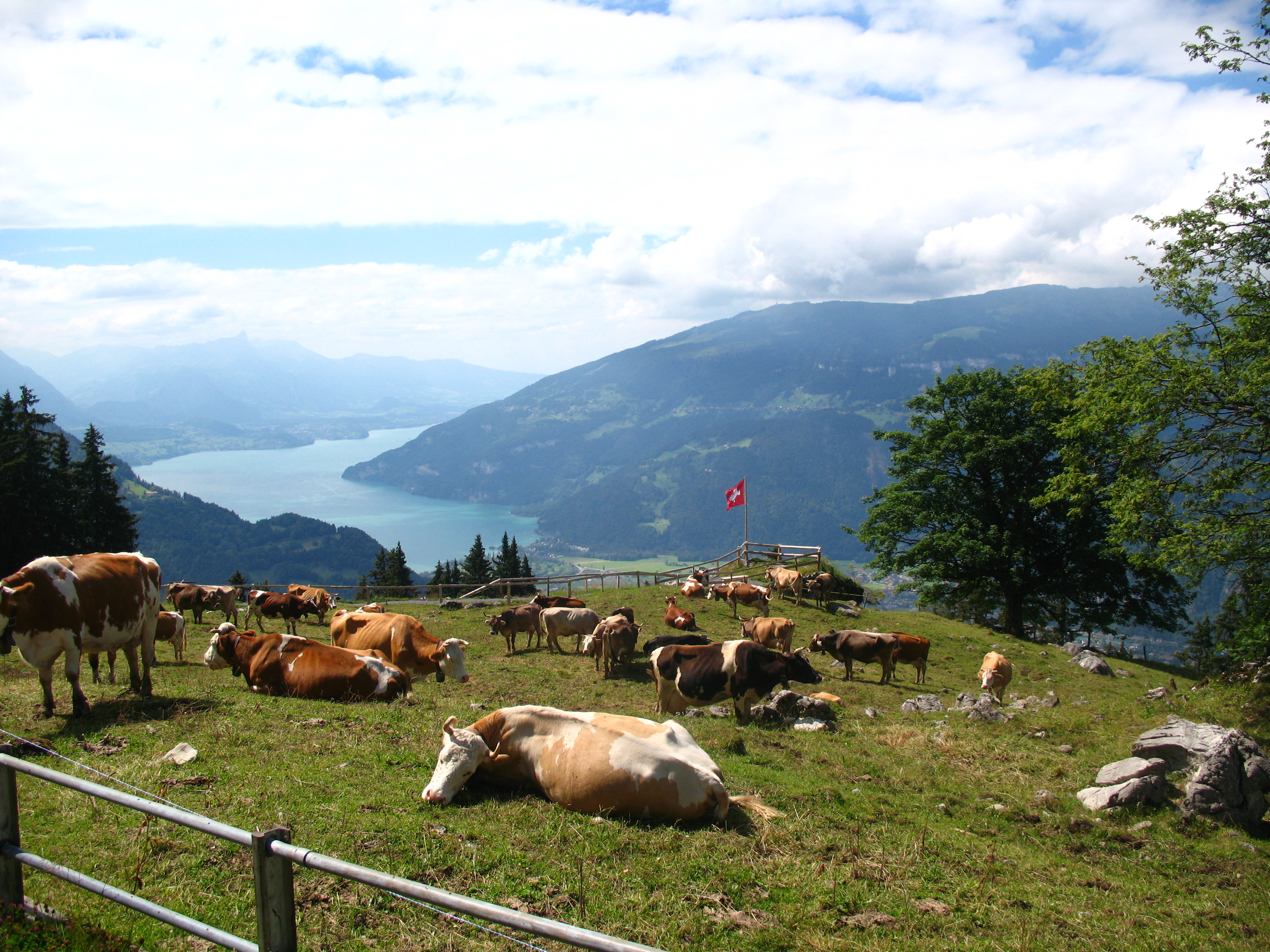 Cattle over Lake Thun viewed from the Schynige Platte Railway, Switzerland